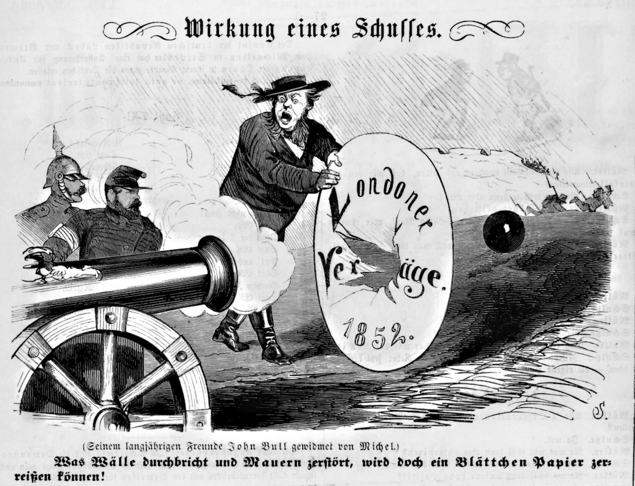 Karikatur, Kladderadatsch